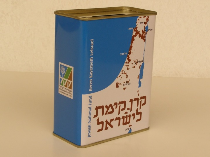 The blue box of the Jewish National Fund, was collecting donations for the establishment of the state in the early years